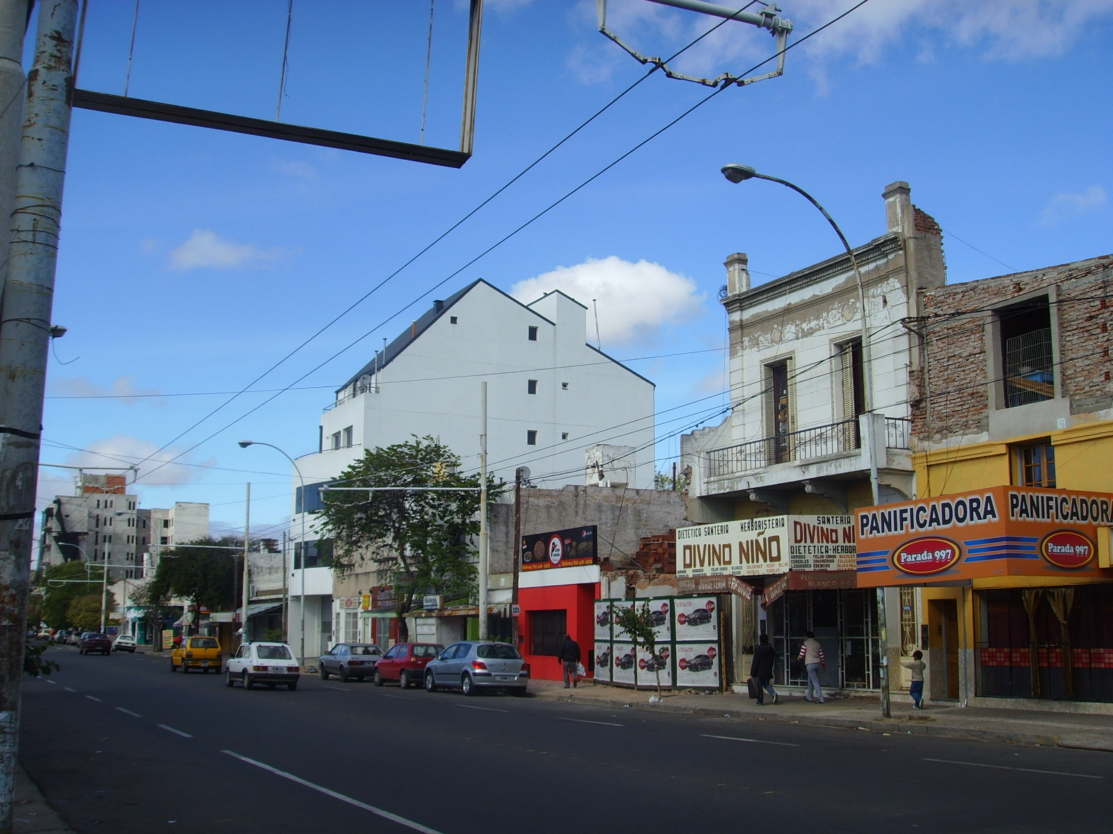 San Jerónimo Street, San Vicente, Córdoba, Argentina